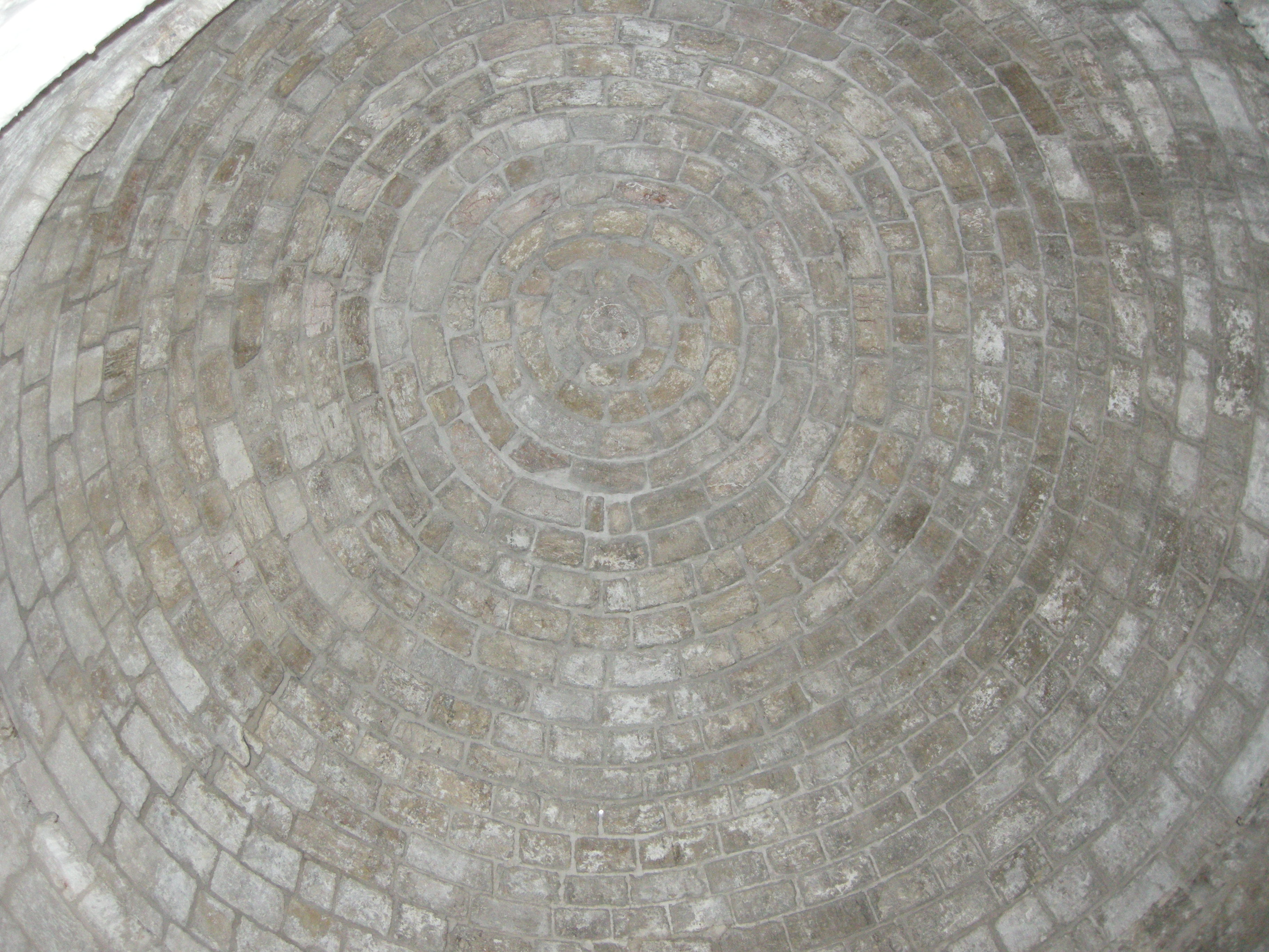 Visit in the Chapel of the Ascension, Jerusalem